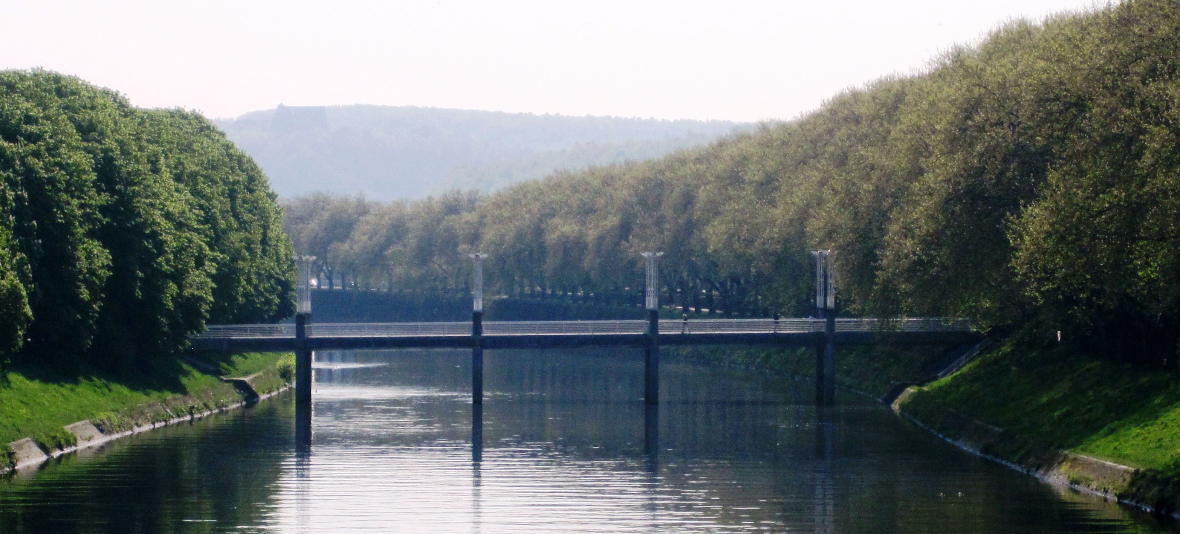 Belle-Île bridge